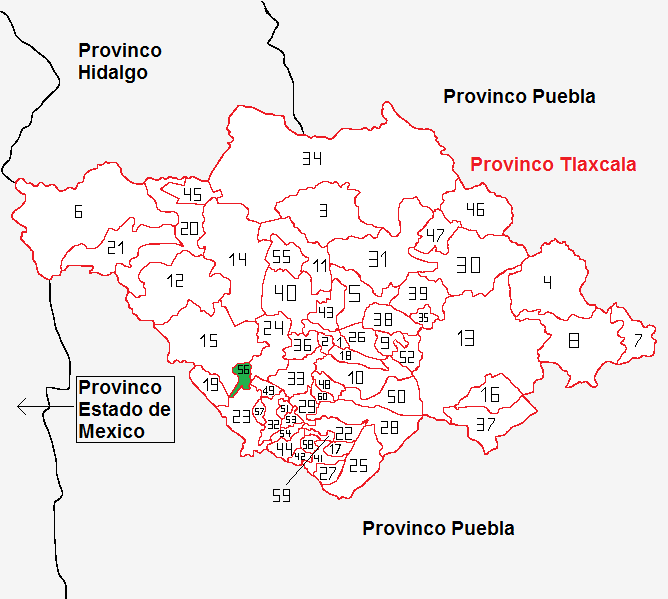 locator map Tlaxcala